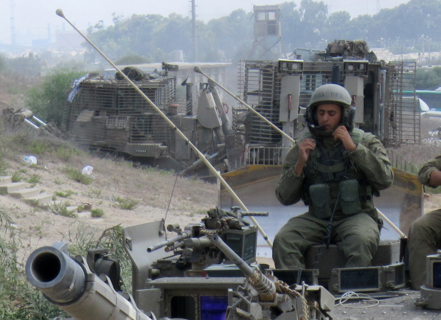 IDF Caterpillar D9 armored bulldozers of the 401st Armor Brigade during Operation Protective Edge, 20 July 2014